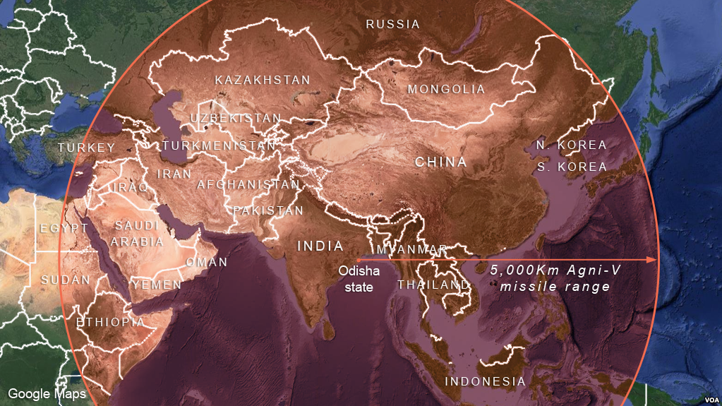 Agni-V missile range